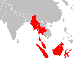 Southeast Asia with Myanmar, Thailand, Malaysia, and Indonesia highlighted